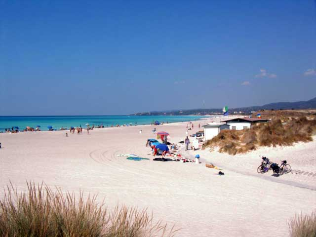 White Beach, Vada, Rosignano Marittimo (LI), Italy